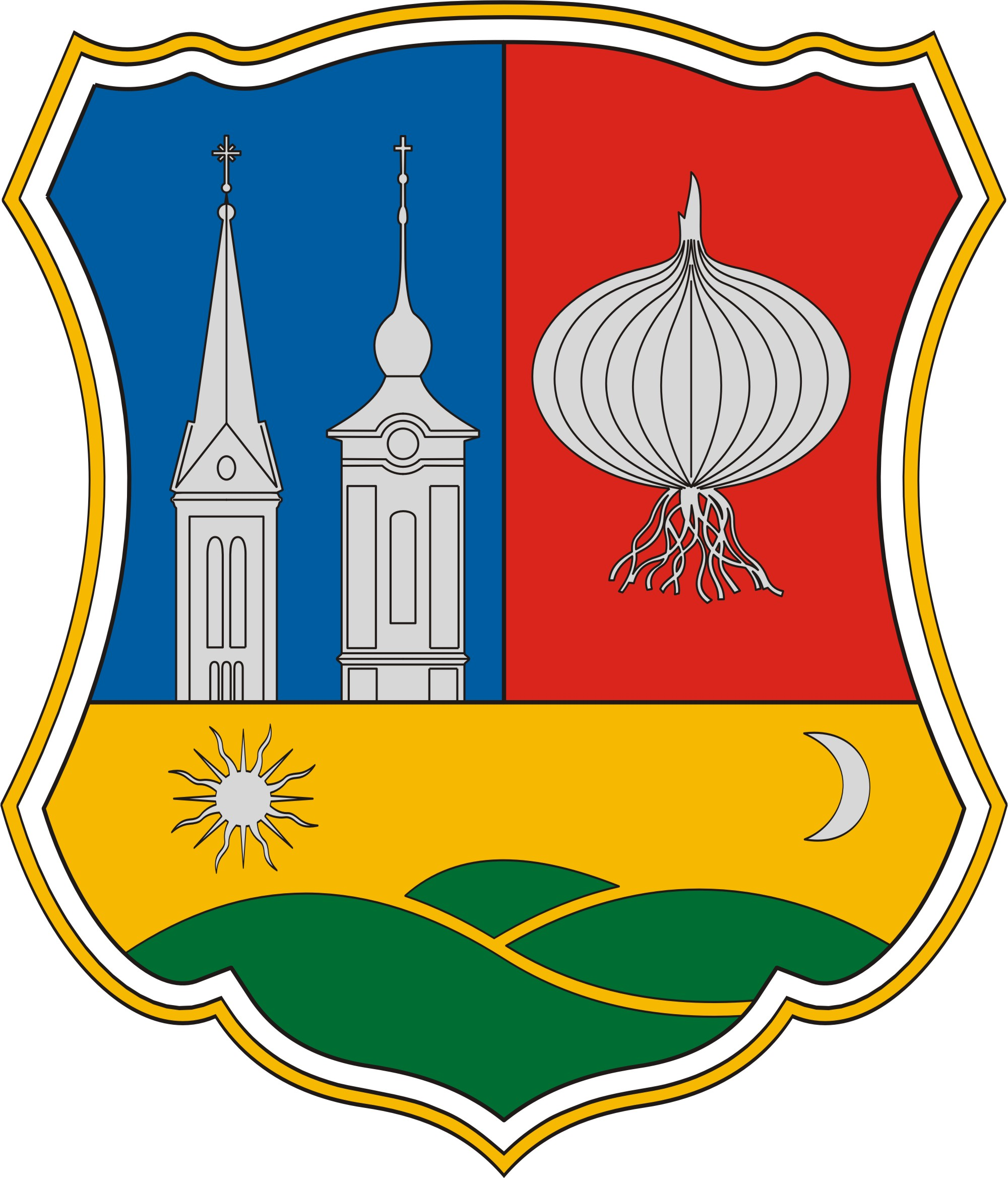 Coat of arms of Nagyhajmás, Hungary